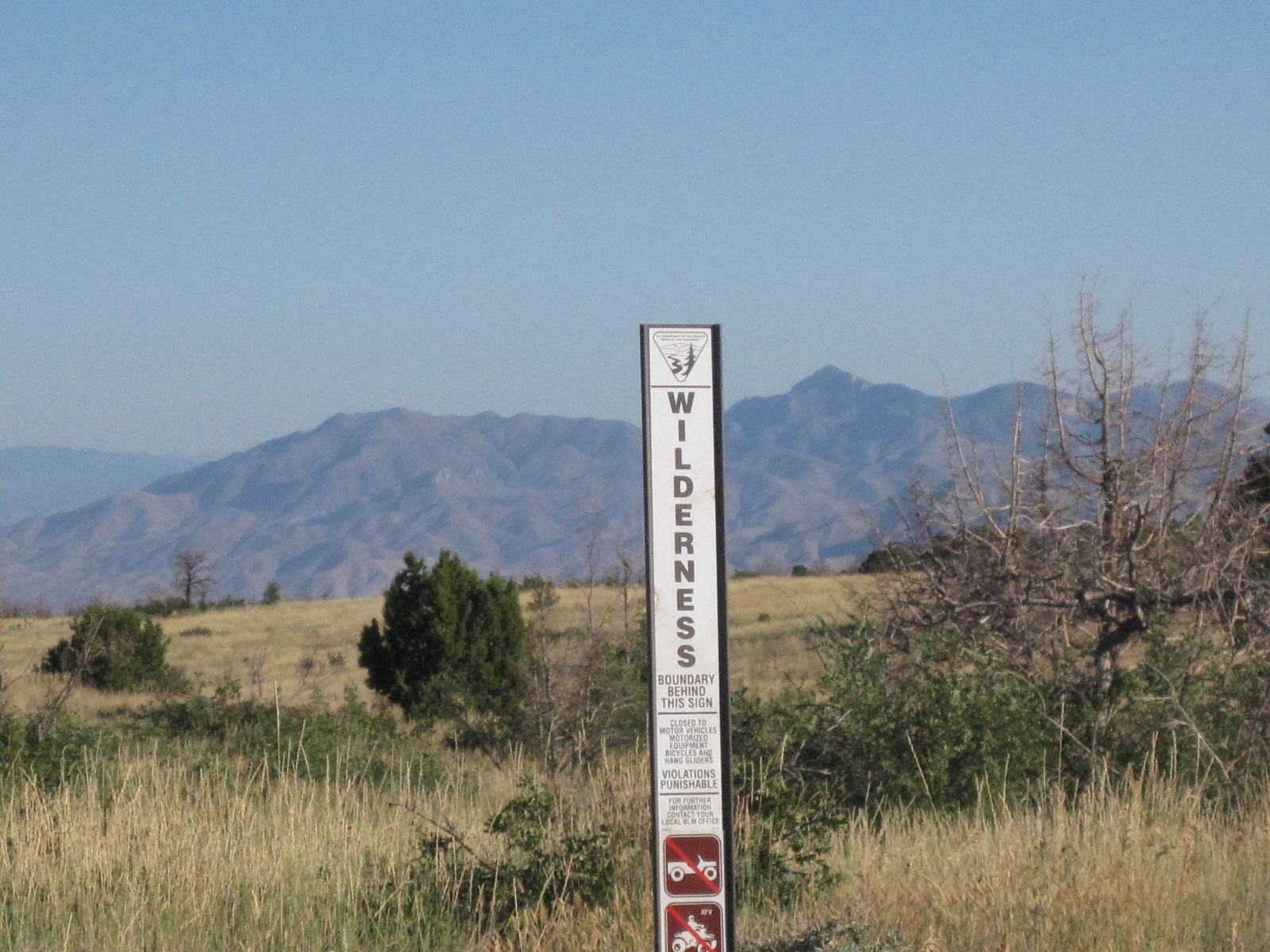 A wilderness boundary sign in the Paiute Wilderness in Arizona. (Note: the view appears eastward, meaning the mountains are possibly/probably at the southeast section of the Paiute Wilderness, and the mountain is Black Rock Mountain (Arizona), the Paiute and mountain, a headwaters region.